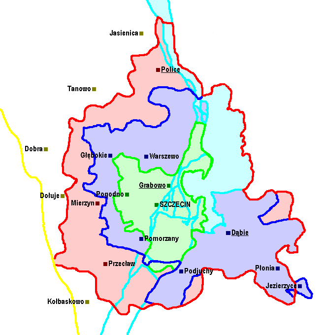 Borders of Szczecin